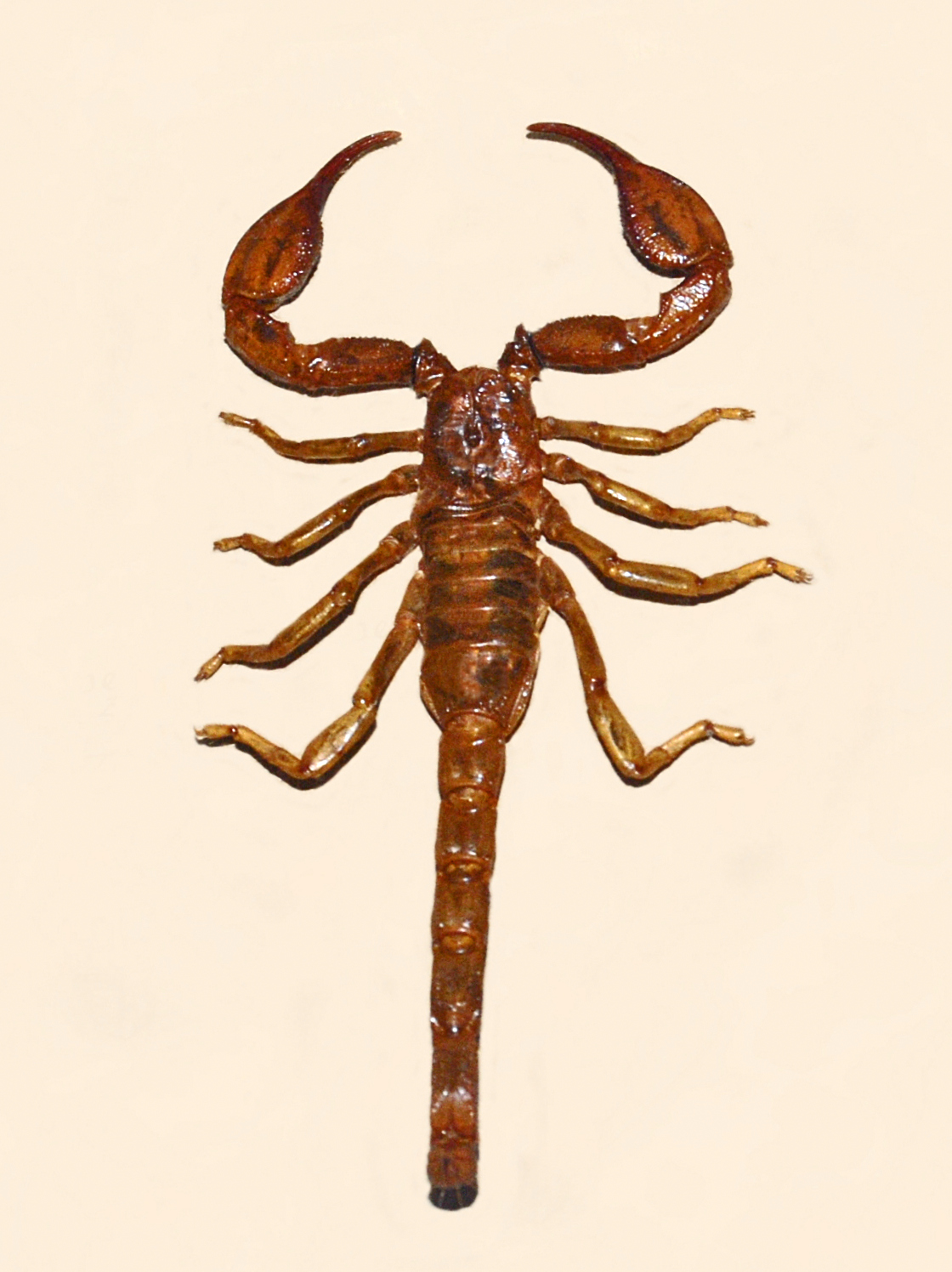 Museum specimen of Nebo flavipes from Yemenl. Museum specimen